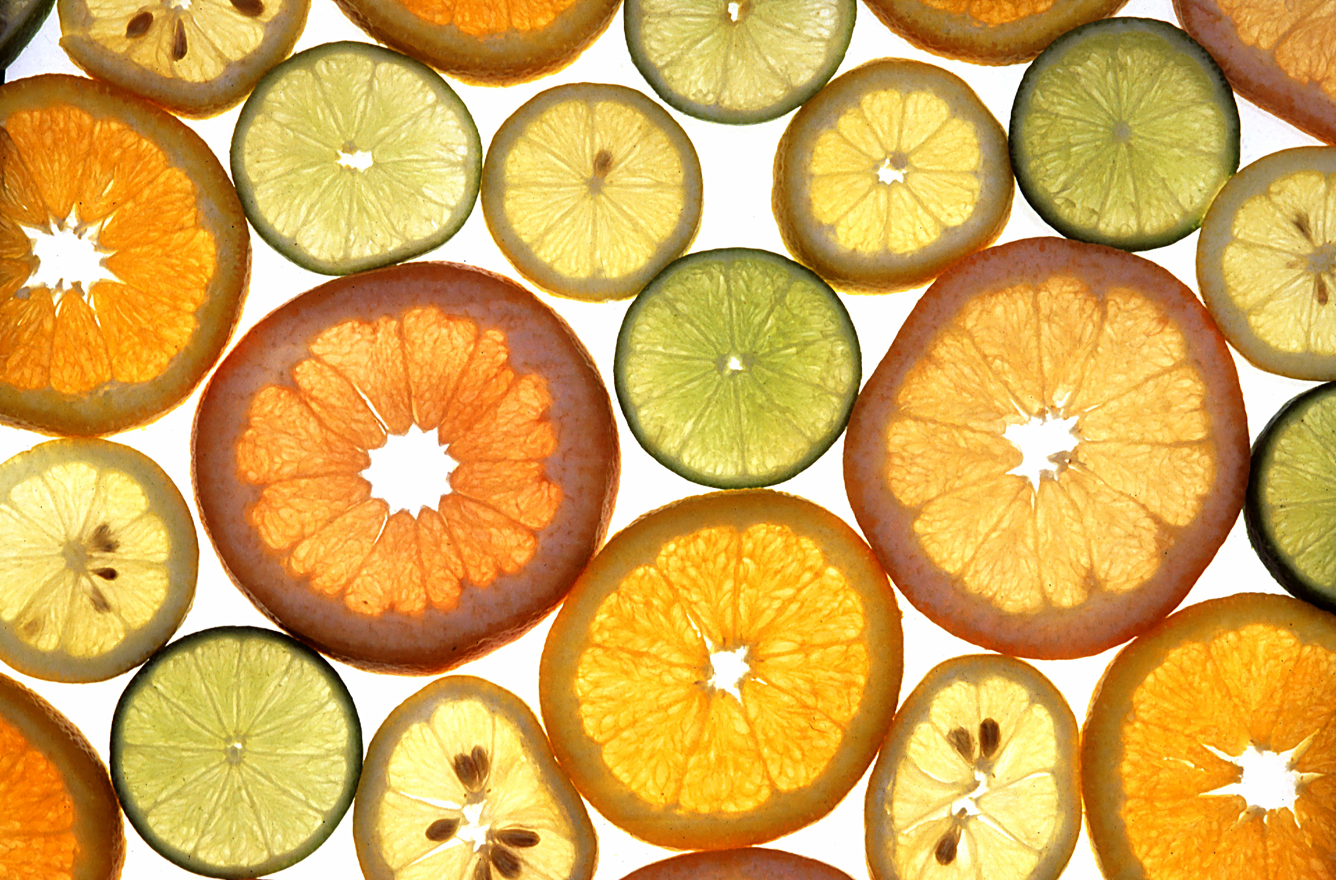 Citrus fruits More than 70 percent of all citrus fruits grown in the United States are varieties developed by the ARS citrus breeding program. In Florida, the ARS has developped citrus varieties that are higher yielding with increased disease resistance, better color, and longer shelf life. A major success story is Ambersweet, a cold-hardy citrus that's been approved for use in orange juice products. Because it withstands Florida's occasional cold snaps that can ruin most citrus, Ambersweet is being widely planted in the Sunshine State. It took 20 years of patient breeding to develop it, but the payoff is huge. If there's usually a grapefruit in your shopping cart, you may already have met up with a favorite ARS-created variety. It's a red-fleshed, thin-skinned, seedless grapefruit that was developed and released in 1987. Since then, over 4 million Flame nursery trees have been propagated in Florida. No other grapefruit variety has ever been so widely accepted and planted. Orange sections can now be prepared by a patented ARS process that uses commercially available food-grade enzymes. The process also removes the bitter white portion of grapefruit peel, eliminating hand-peeling and allowing more precise portion control. And the prepeeled fruit is ideal for school lunch programs and restaurants. Keeping oranges fresh is another citrus-oriented task we've taken on. Oranges that have been covered with our specially designed coating will stay fresh for up to 3 weeks at room temperature. In that time, fruit treated with the usual grocer's coatings will look shrunken and discolored.